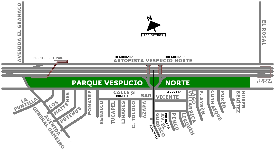 Vespucio Norte Park's map.